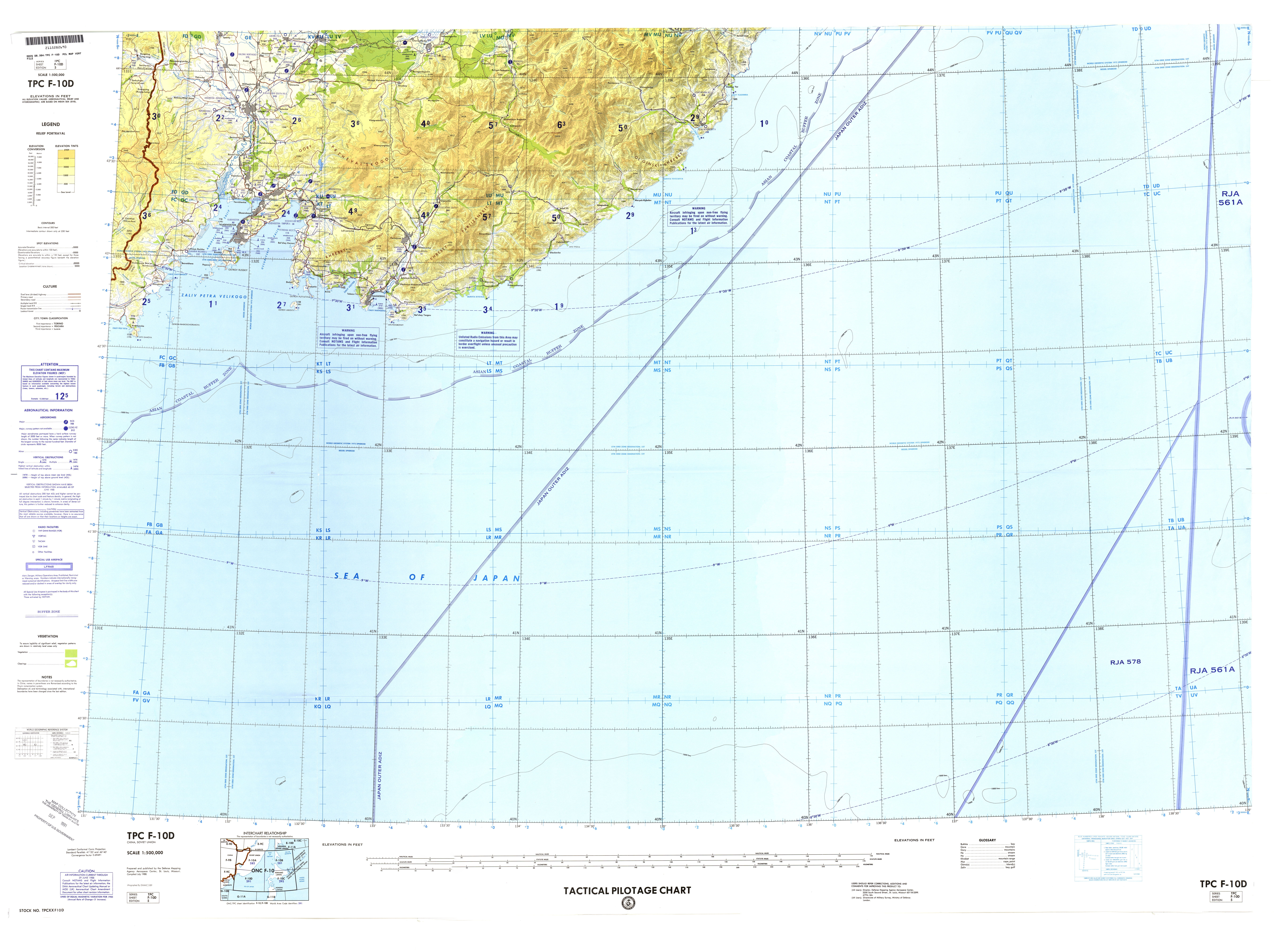 Tactical Pilotage Chart Series - World 1:500,000 Scale